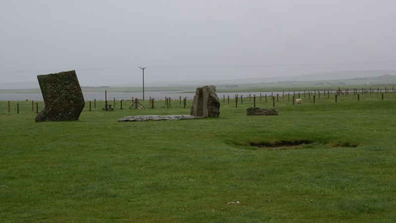 Stones of Stenness, Mainland, Orkney, Scotland. Detail with hearth.